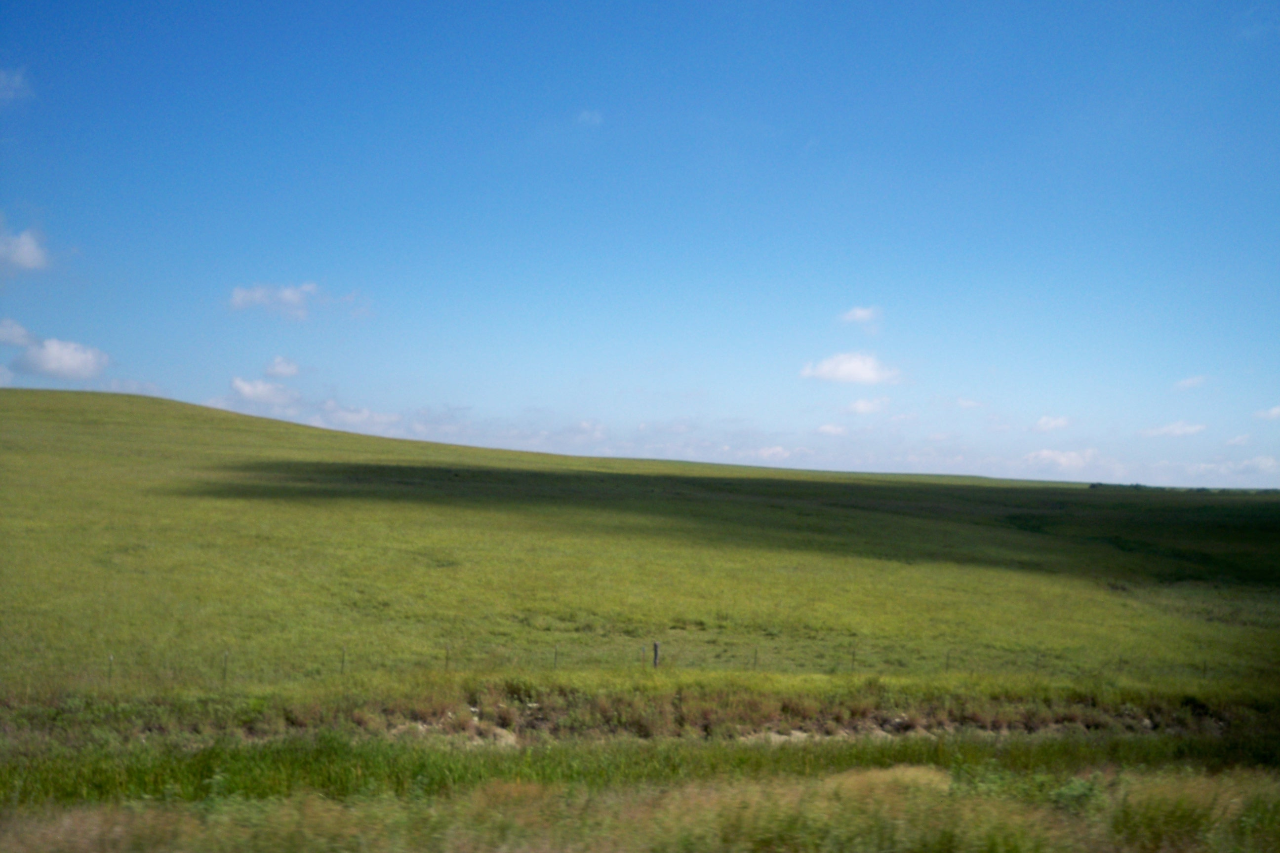 Steppe zone off of highway 45 near Chihuahua City